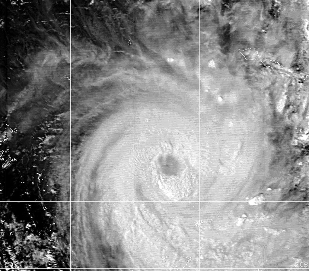 Severe Tropical Cyclone Waka near peak intensity on December 31, 2001